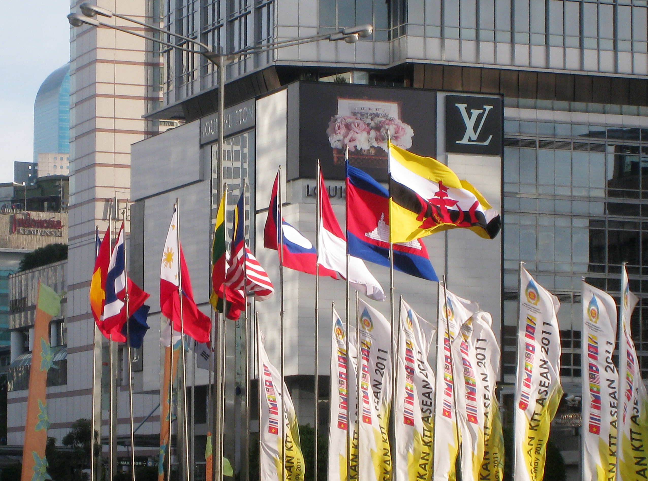 The flags of ASEAN nations raised in MH Thamrin Avenue, Jakarta, during 18th ASEAN Summit, Jakarta, 8 May 2011.